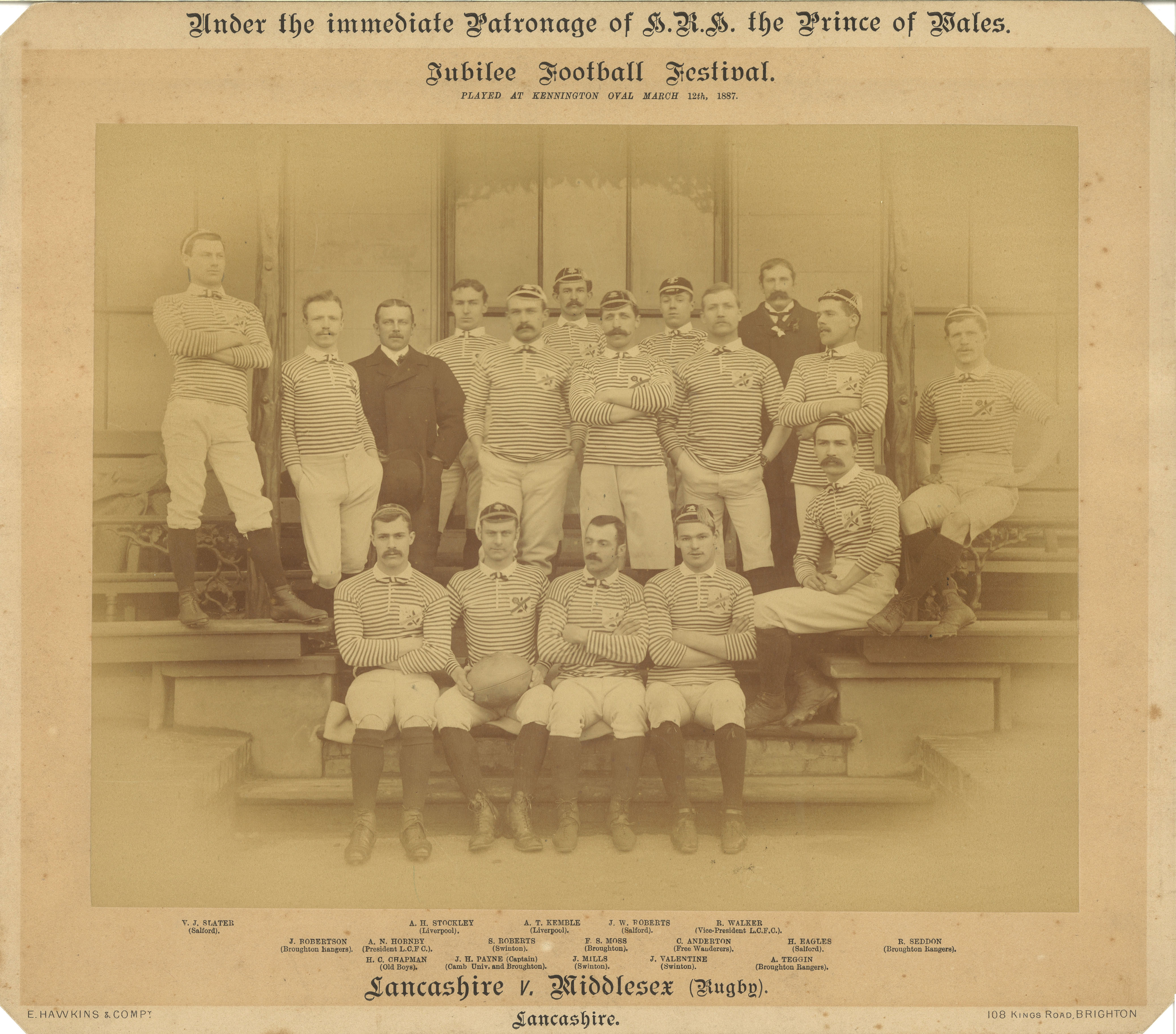 The Lancashire County rugby union team that played Middlesex County at the Jubilee Football Festival, 12 March 1887. Back row: V. J. Slater (Salford), A. H. Stockley (Liverpool), A. T. Kemble (Liverpool), J. W. Roberts (Salford), R. Walker (Vice-President L.C.F.C.) Middle row: J. Robertson (Boughton Rangers), A. N. Hornby (President L.C.F.C.), S. Roberts (Swinton), F. S. Ross (Broughton), C. Anderton (Free Wanderers), H. Eagles (Salford), R. Seddon (Broughton Rangers) Front row: H. C. Chapman (Old Boys), J. H. Payne (Captain, Cambridge University and Broughton), J. Mills (Swinton), J. Valentine (Swinton), A. Teggin (Broughton Rangers)